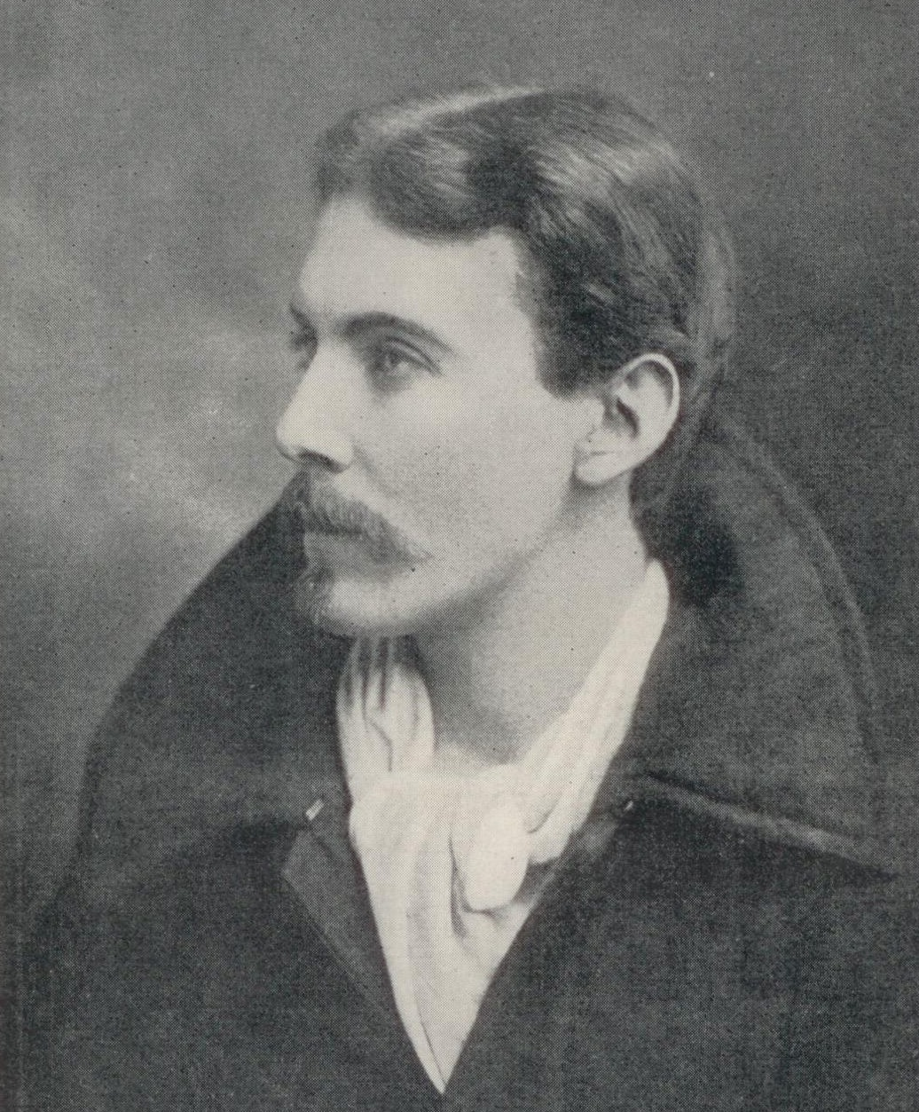 Geoffrey Winthrop Young soon after leaving Cambridge 1898